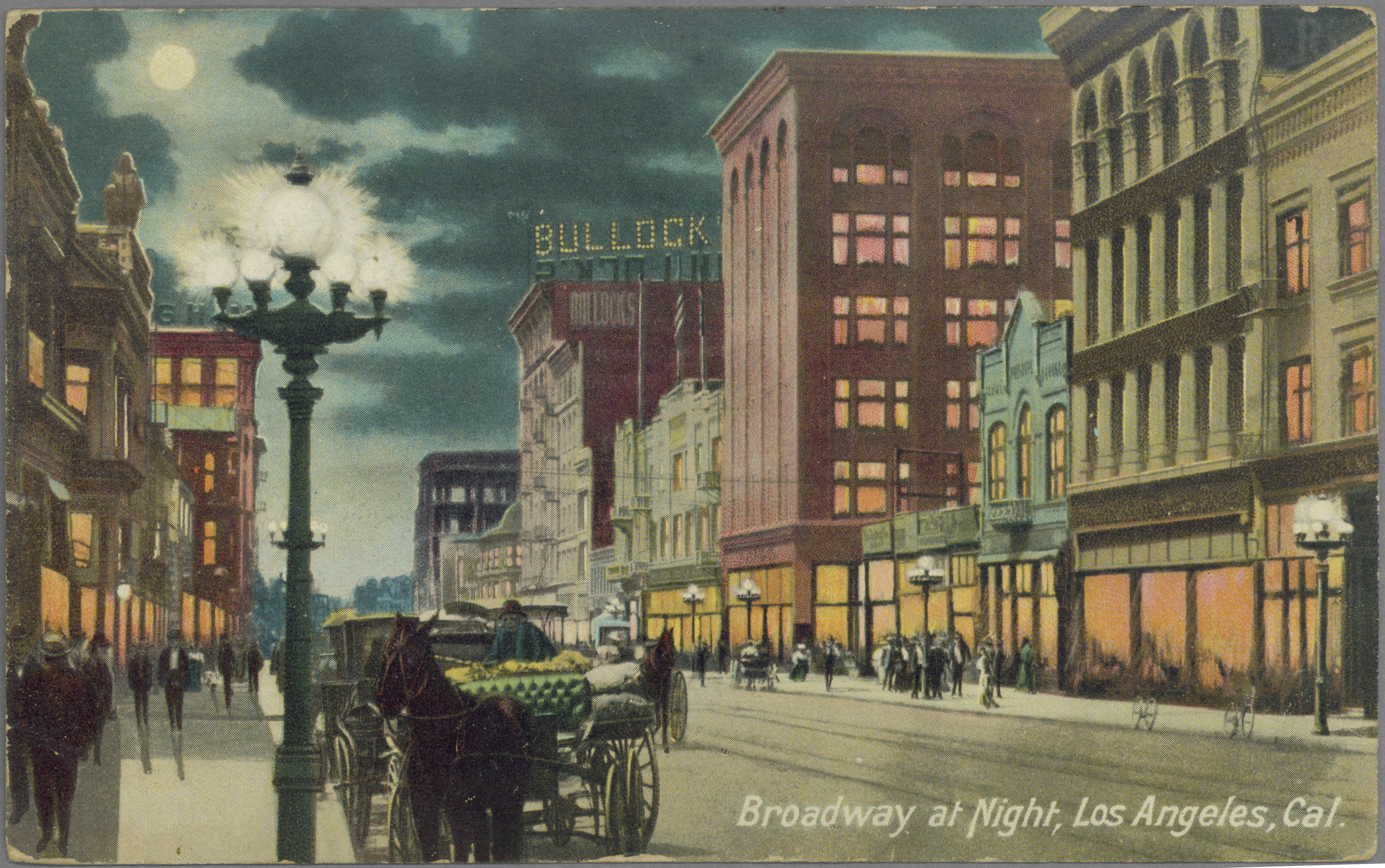 Broadway at Night, Los Angeles, Cal. Postcard of Broadway Boulevard, Los Angeles, California at night, from a color illustration. In the foreground, underneath the light of a streetlamp, is a horse-drawn carriage. People stroll along the sidewalks past tall buildings. A "Bullock's" building is in the center of the image. A full moon illuminates the night sky. "A 41" and "Made in Germany" -- printed on back.; Handwritten manuscript on back. Postmarked from Los Angeles, California on July 17, 1909. Legacy Record ID: pcard-m153 Filename: pcard-print-pub-pc-61a; pcard-print-pub-pc-61b Access Conditions: Coverage date: 1880/1909 Part of collection: Historic Postcards Type: images Publisher (of the Digital Version): University of Southern California. Libraries Geographic Subject (State): California Geographic Subject (County): Los Angeles Geographic Subject (Roadway): Broadway Blvd. Identifying Number: file name: pb-print-pub-slac-pc.61; file name: pb-print-pub-slac-pc-b.61 Publisher (of the Original Version): Newman Post Card Co., Los Angeles, Cal. Format (aacr2): 1 postcard : col. ; 9 x 14 cm. Repository Name: USC Libraries Special Collections Language: English Rights: Newman Post Card Co., Los Angeles, Cal. Subject (adlf): roadways Repository Address: Doheny Memorial Library, Los Angeles, CA 90089-0189 Geographic Subject (City or Populated Place): Los Angeles Contributing entity: University of Southern California Date created: 1880/1909 Format (aat): Postcards; art Repository Geographic Subject (Country): USA Subject: streets